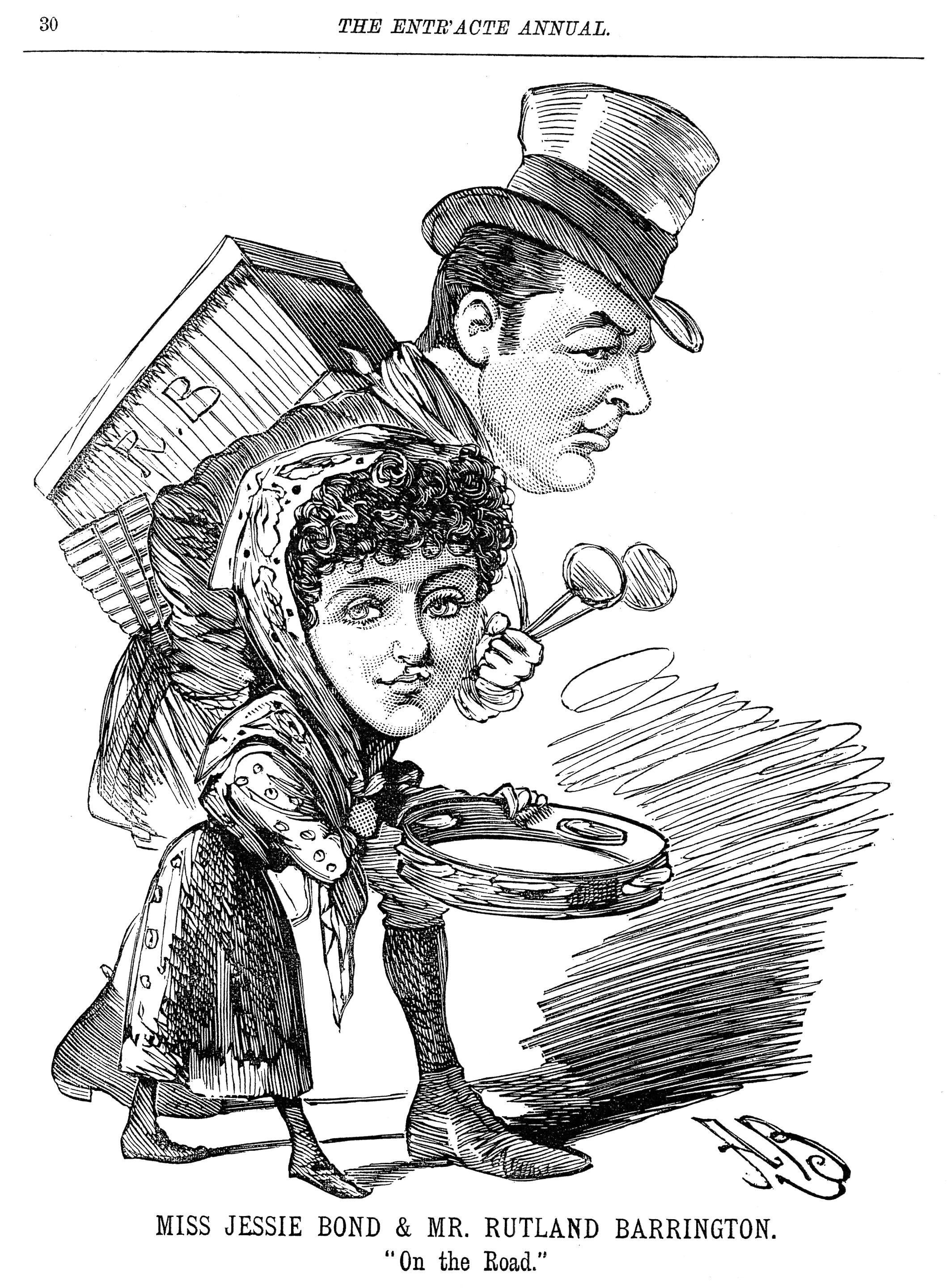 Jessie Bond and Rutland Barrington, after the temporary breakup of Gilbert and Sullivan after the Gondoliers, temporarily left the D'Oyly Carte in 1891, and went touring with a series of musical numbers and Sketches by Barrington and Edward Solomon.